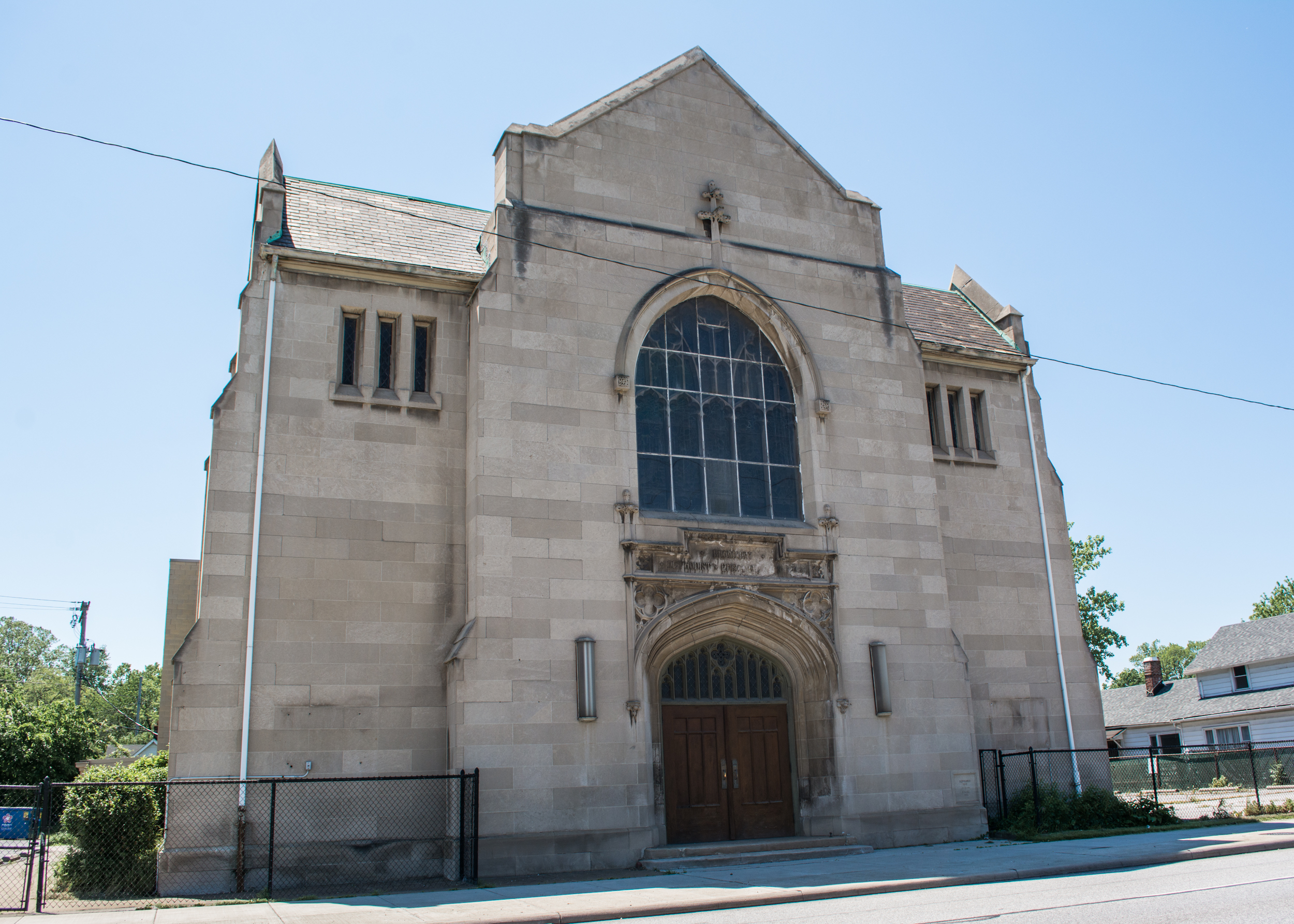 5246 Broadway Avenue in Cleveland, Ohio, in the United States. The building is a contributing property to the Broadway Avenue Historic District, which was added to the National Register of Historic Places in 1988. The 1872 church was built to house the Broadway Methodist Church. By 1920, it was the largest non-Catholic Czech congregation in Cleveland, and one of the richest. A wealthy member paid several artists to travel to Italy in 1957 to measure and study the Leonardo da Vinci's The Last Supper and paint a life-size copy over the altar at Broadway Methodist. The replica remains the largest and most accurate Last Supper in the United States. Broadway Methodist closed in 2010.